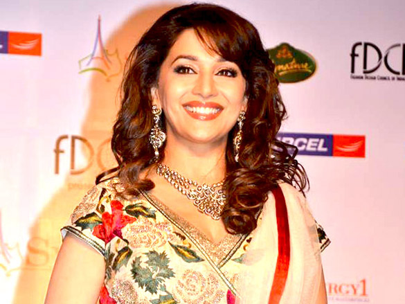 Madhuri Dixit at Synergy1 Delhi Couture Week 2011